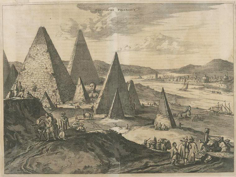 Olfert Dapper's rendering of the Pyramids in Egypt, "Egiptische Piramiden." The illustration was part of his work Description of Africa. Dapper was an Amsterdam Physician who never actually visited Africa, but pieced together his account from sources that were available to him. The book was published originally in Dutch at Amsterdam (1668) by Jacob van Meurs, as Naukeurige beschrijvinge der Afrikaensche gewesten van Egypten, Barbaryen, Libyen, Biledulgerid, Negroslant, Guinea, Ethiopiën, Abyssinie. It was then quickly translated into German (1670) as Umbständliche und eigentliche Beschreibung von Africa und denen darzu gehörigen Königreichen und Landschaften, from which this image was taken.